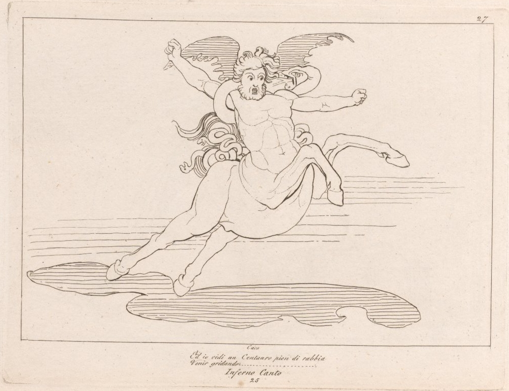 Engraving: Ed io vidi un Centauro from Divina Commedia by Dante - illustration designed by John Flaxman, engraved by Tommaso Piroli.